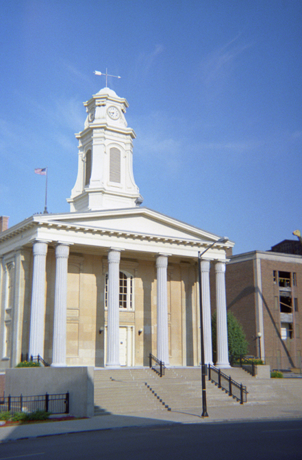 Front of the Second St. Joseph County Courthouse, located at 112 S. Lafayette Boulevard in South Bend, Indiana, United States. Built in 1853, it is listed on the National Register of Historic Places, and it is part of a Register-listed historic district, the West Washington Historic District.